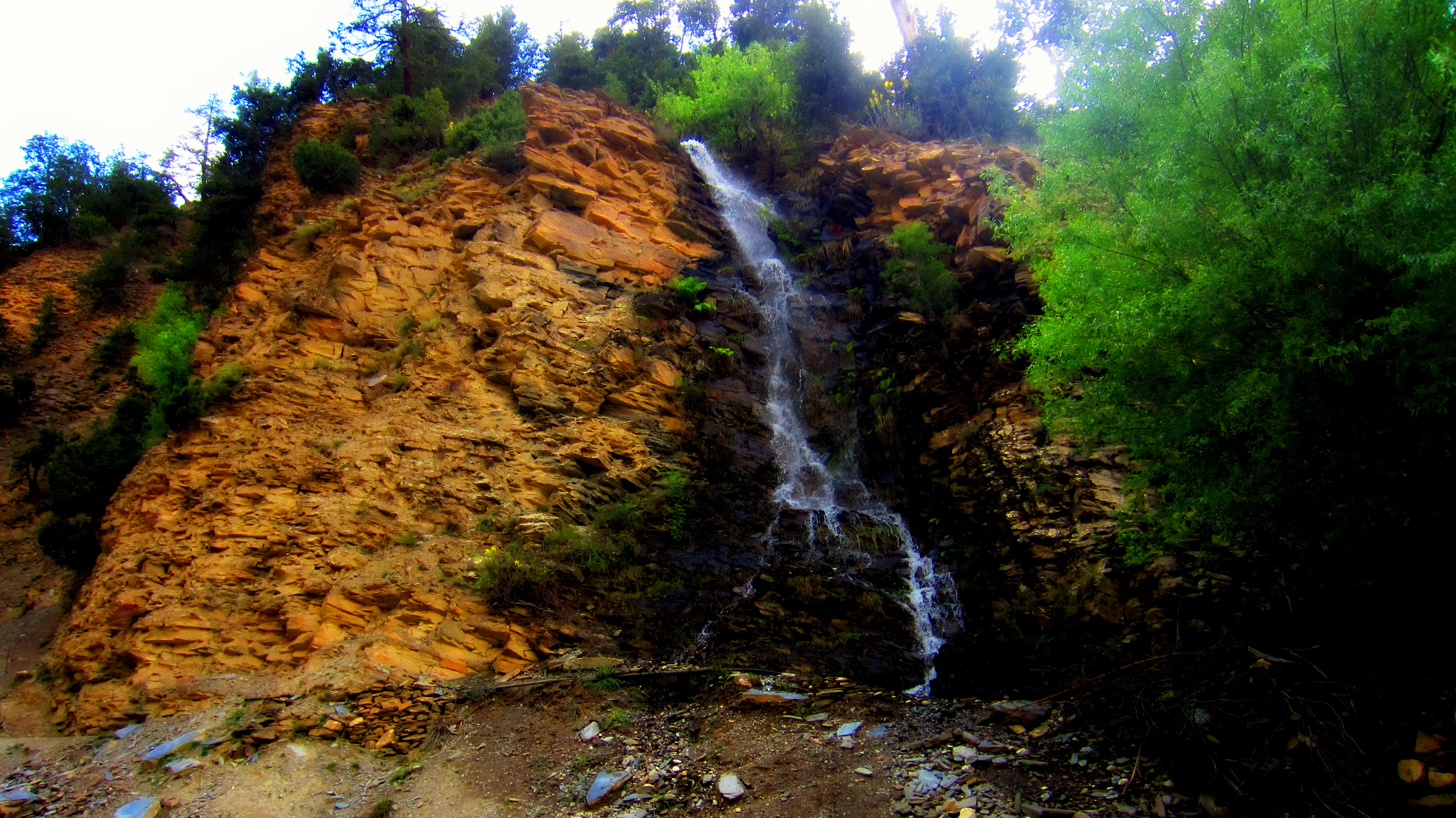 A waterfall on way from Birir Pass to Bumburate in Kalasha Valley, Pakistan.